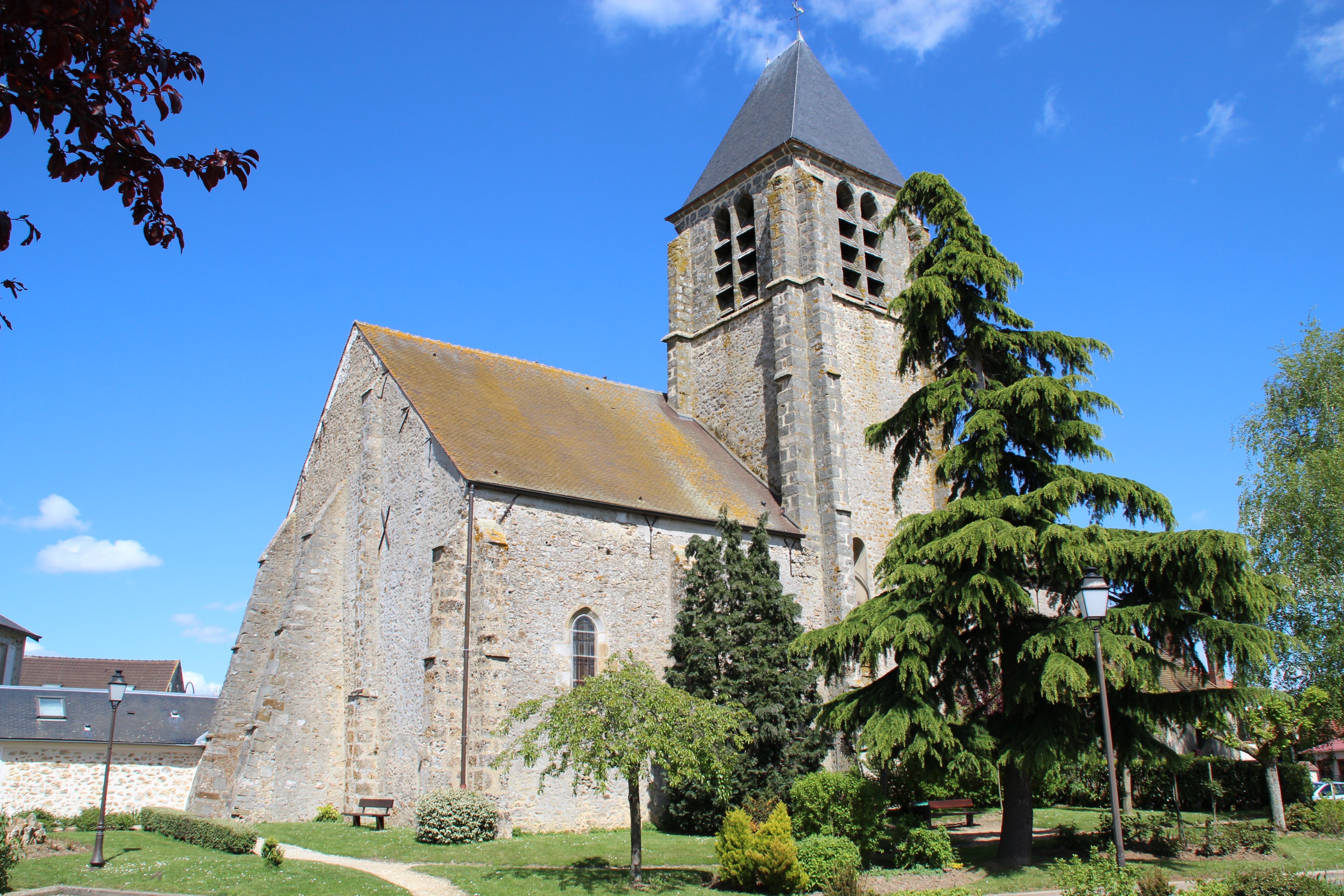 Saint-Germain church of Gometz-la-Ville, France. Object location48° 40′ 17.51″ N, 2° 07′ 31.62″ E